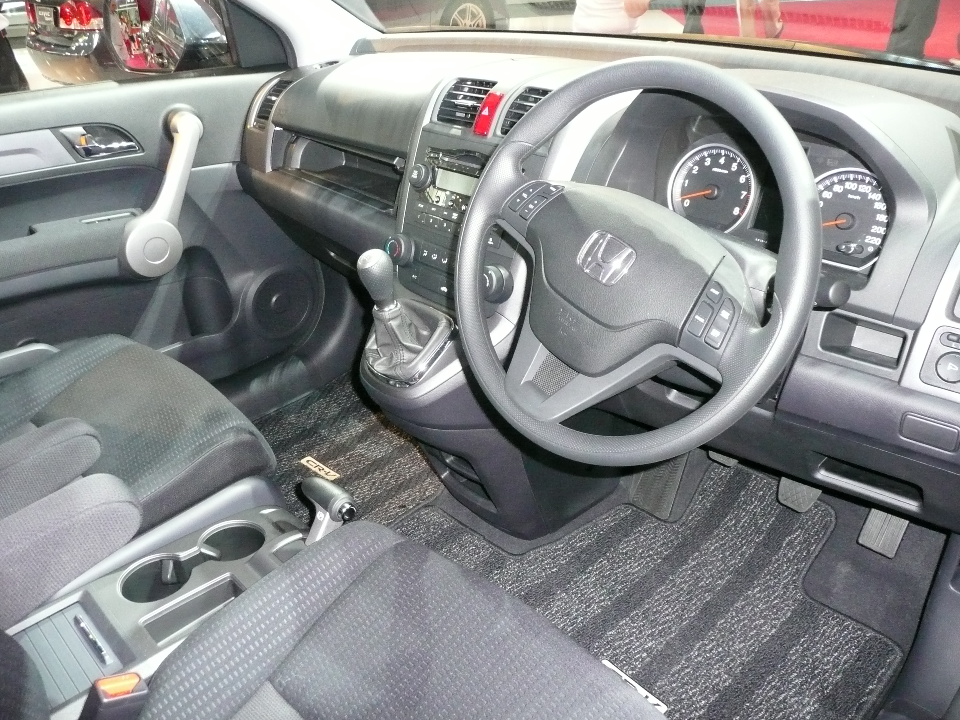 2007 Honda CR-V (RE MY2007) wagon. Photographed at the 2007 Australian International Motor Show, Sydney, New South Wales, Australia.